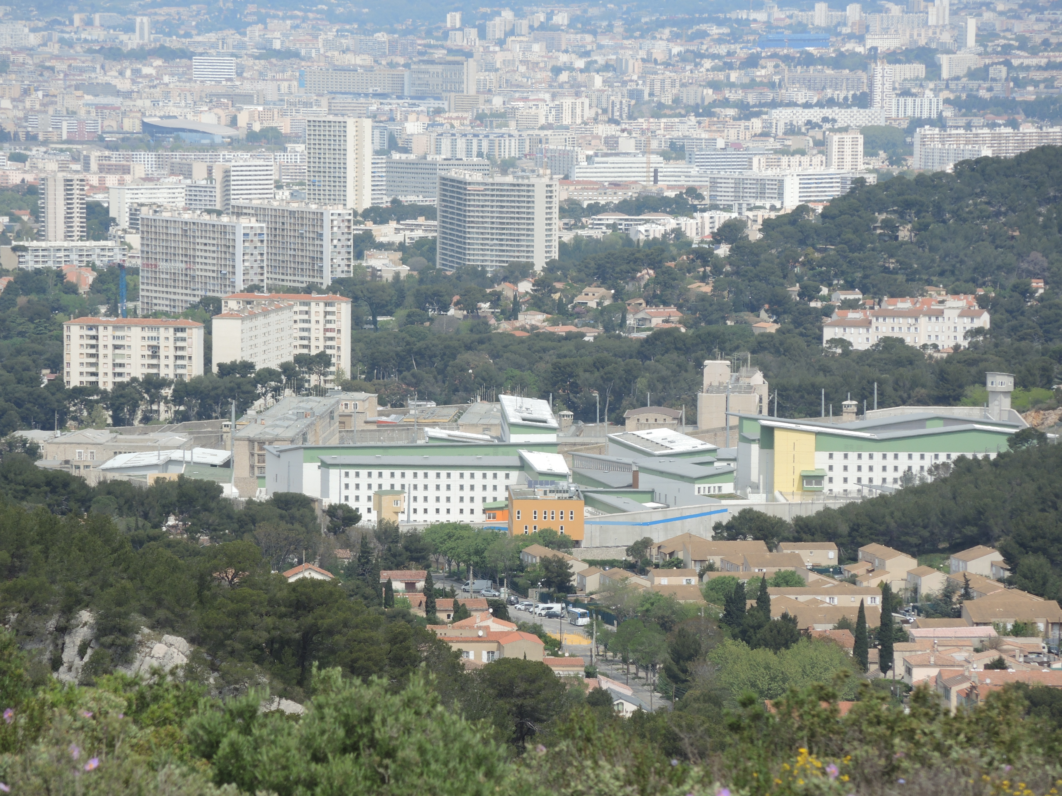 Les Baumettes prison in Marseille, France.